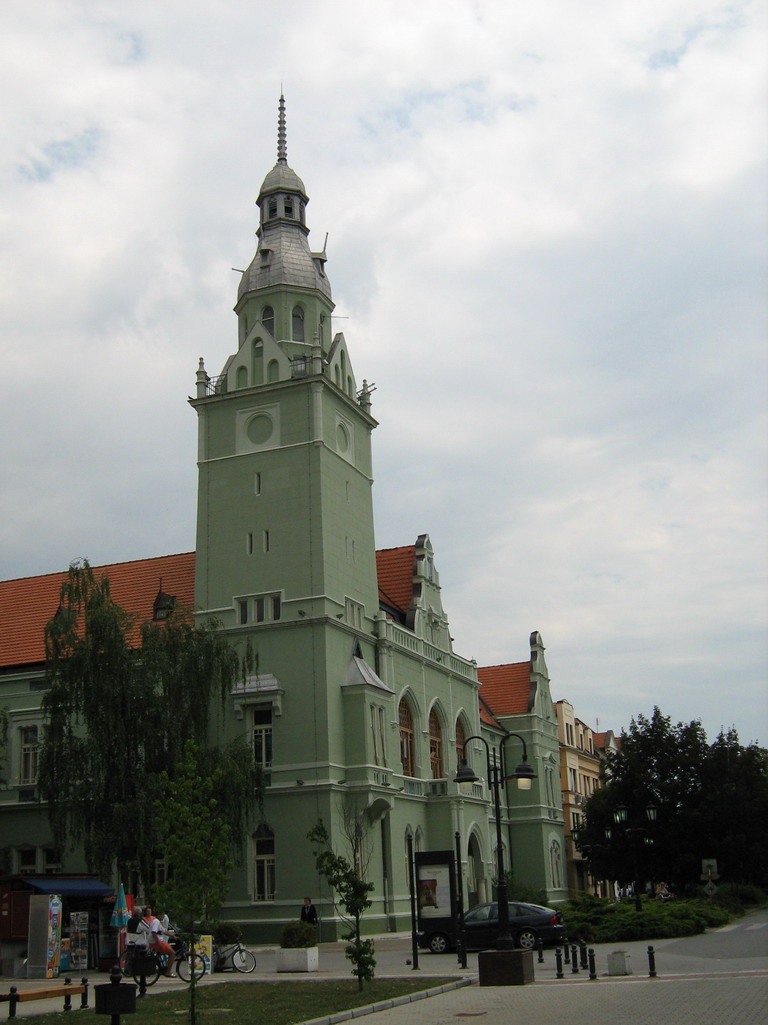 Town Hall in Apatin, Vojvodina, Serbia